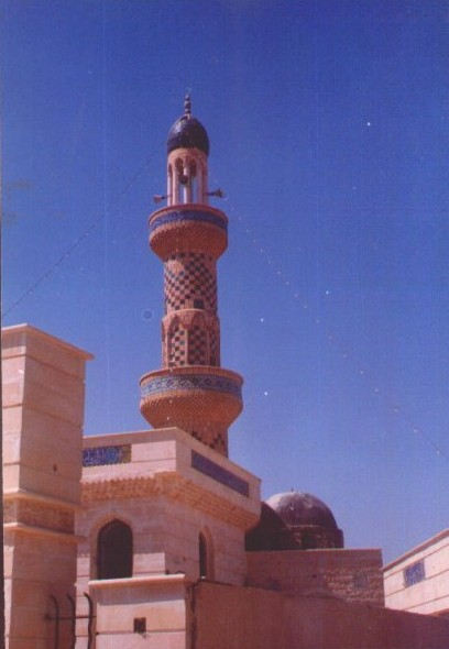 CITY OF RAWA IN IRAQ